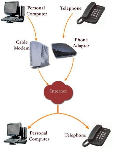 Voice over Internet Protocol, how it works